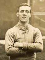 Image is from Liverpool teamphoto in 1919.